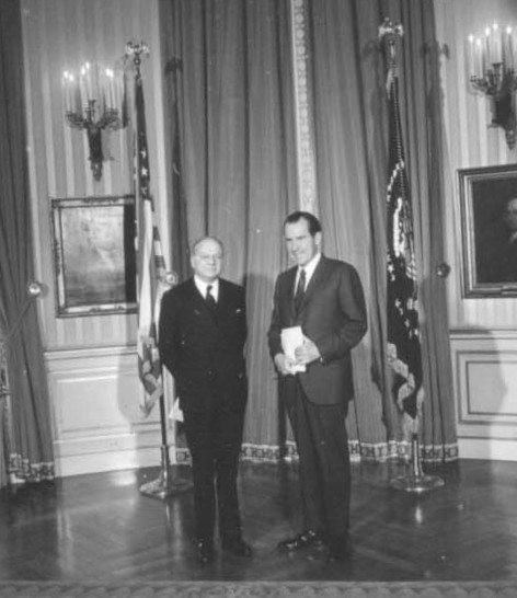 ● Frame(s): WHPO-3000-02-08, President Nixon standing in the Oval Office with Executive Assistant Bill Hopkins holding a Commission certificate. 2/20/1970, Washington, D.C., White House, Oval Office. President Nixon, William J. Hopkins ● Frame(s): WHPO-3000-11-14, President Nixon receiving credentials from the Ambassador of Burma, U San Maung. 2/20/1970, Washington, D.C., White House, Red Room. President Nixon, U San Maung ● Frame(s): WHPO-3000-16-17, President Nixon receiving credentials from Argentina's Ambassador Pedro Eduardo Real. 2/20/1970, Washington, D.C., White House, Red Room. President Nixon, Pedro Eduardo Real ● Frame(s): WHPO-3000-19-21, President Nixon receiving credentials from Brazil's Ambassador Mazart Valente. 2/20/1970, Washington, D.C., White House, Red Room. President Nixon, Mazart Valente ● Frame(s): WHPO-3000-23-26, President Nixon receiving credentials from Spain's Ambassador Jaime Arguelles. 2/20/1970, Washington, D.C., White House, Red Room. President Nixon, Jaime Arguelles ● Frame(s): WHPO-3000-28-31, President Nixon receiving credentials from Canada's Ambassador Marcel Cadieux 2/20/1970, Washington, D.C., White House, Red Room. President Nixon, Marcel Cadieux